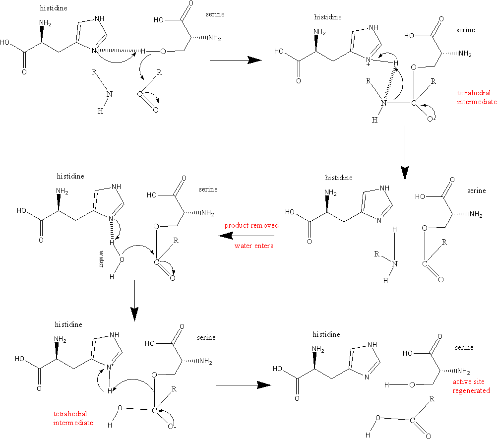 The serine protease reaction mechanism.